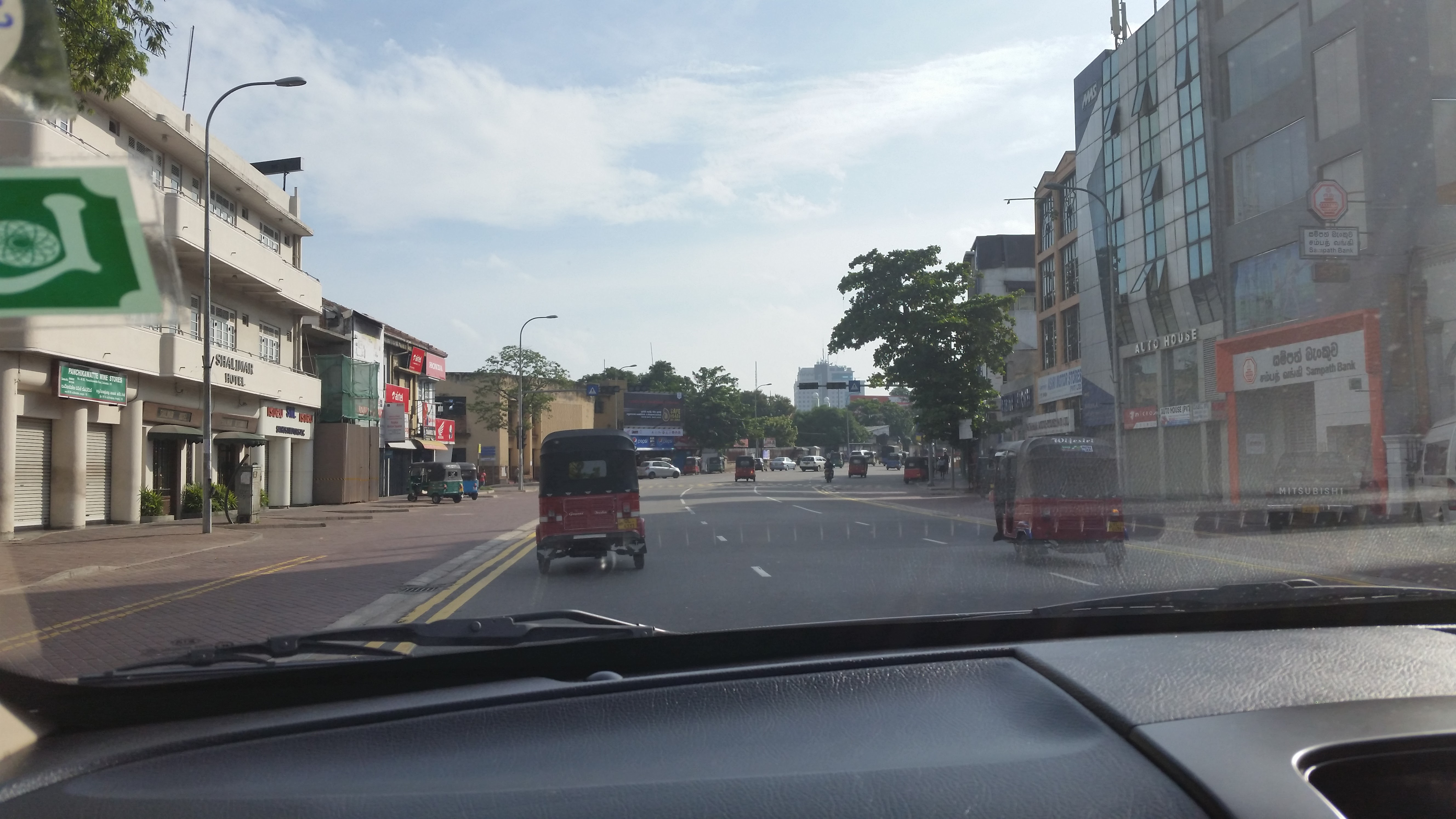 Colombo December 2016